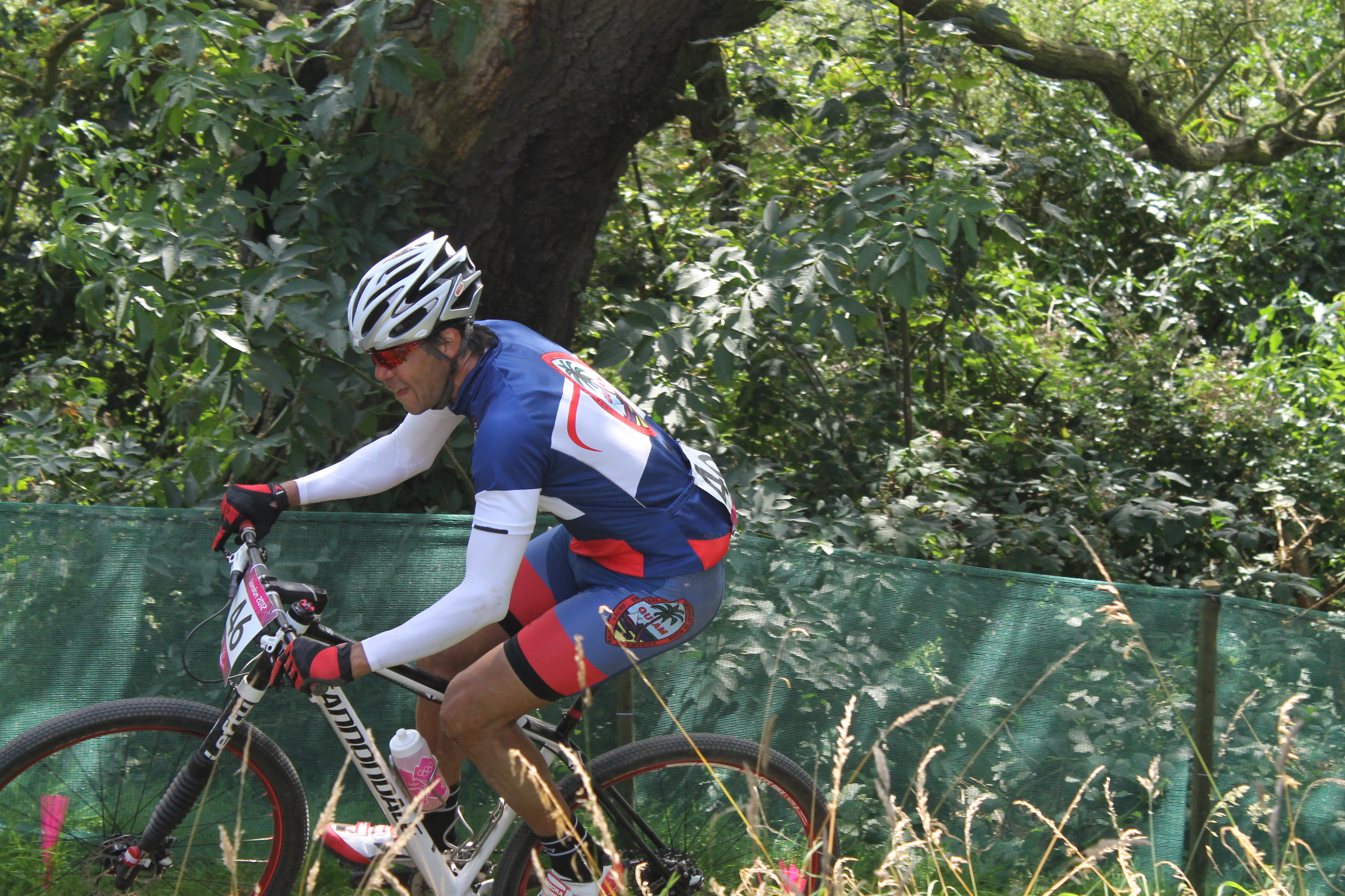 Cycling at the 2012 Summer Olympics – Men's cross-country Derek Horton (46) (GUM) IMG_4086